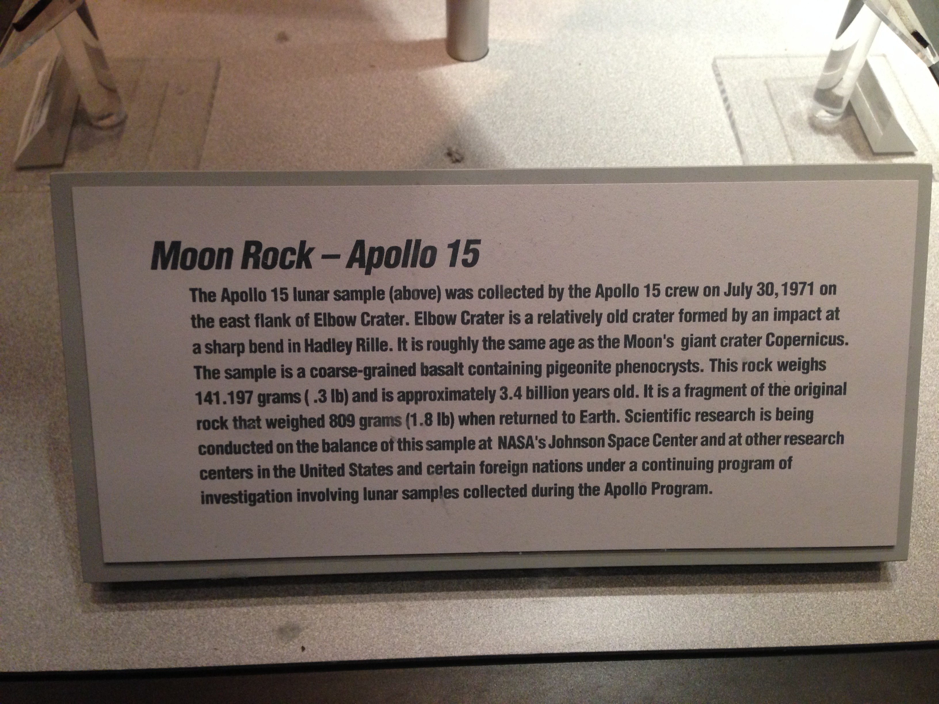 NASA Ames Research Center visitor center, Mountain View, California